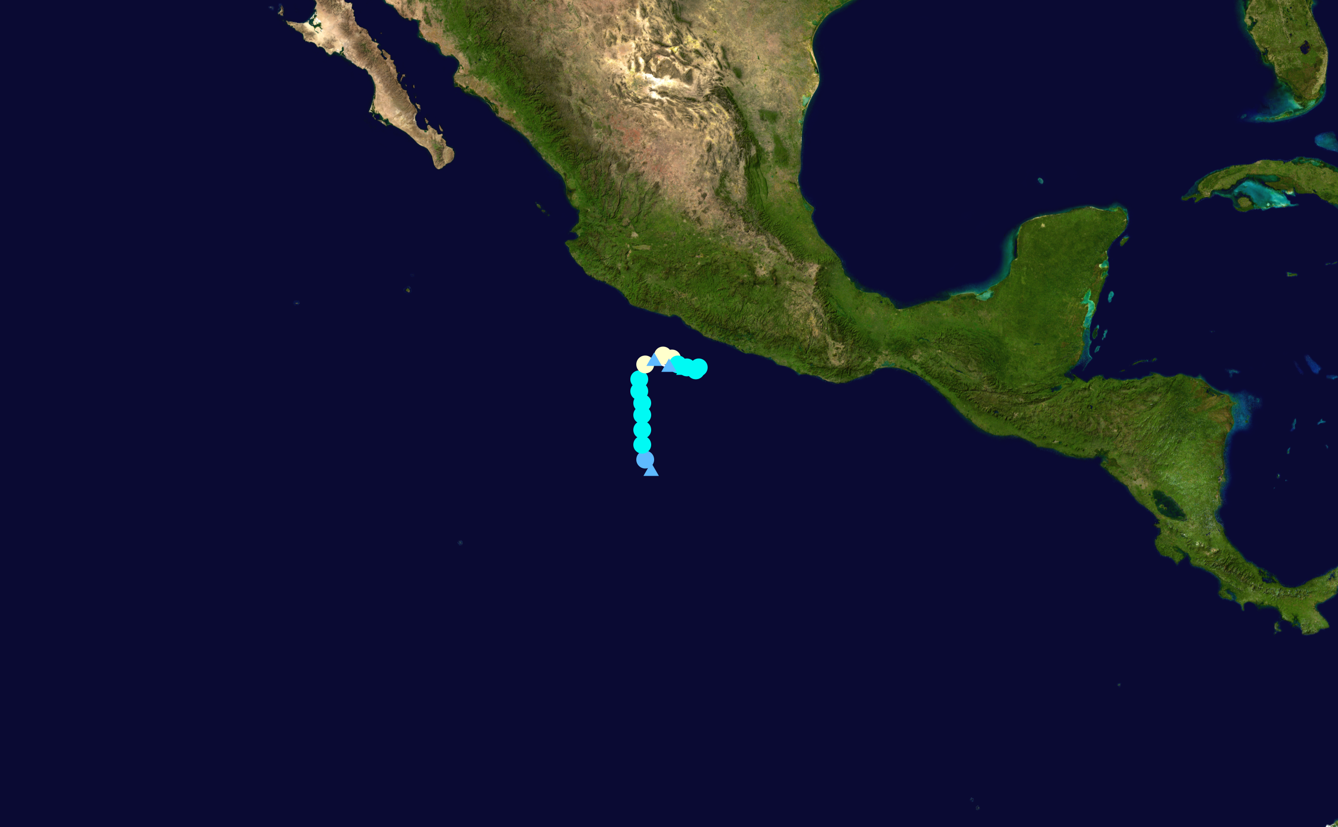 Track map of Hurricane Marty of the 2015 Pacific hurricane season. The points show the location of the storm at 6-hour intervals. The colour represents the storm's maximum sustained wind speeds as classified in the Saffir–Simpson scale (see below), and the shape of the data points represent the nature of the storm, according to the legend below. Saffir–Simpson scale Tropical depression≤38 mph≤62 km/h Category 3111–129 mph178–208 km/h Tropical storm39–73 mph63–118 km/h Category 4130–156 mph209–251 km/h Category 174–95 mph119–153 km/h Category 5≥157 mph≥252 km/h Category 296–110 mph154–177 km/h Unknown Storm type Tropical cyclone Subtropical cyclone Extratropical cyclone / Remnant low / Tropical disturbance / Monsoon depression